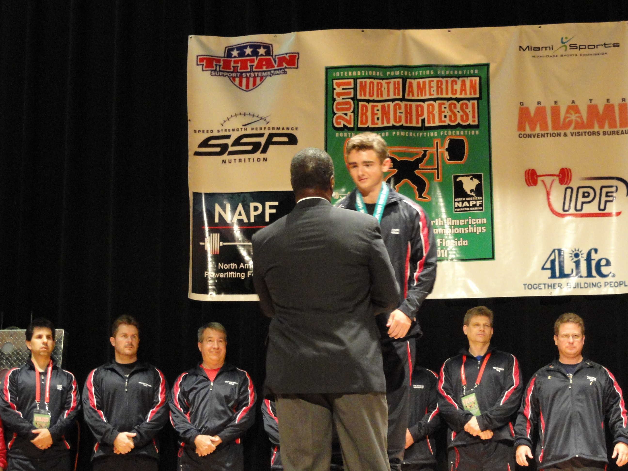 This is a photograph of the 2011 NAPF Bench Press Championships in Miami, FL. (Tyler Moore)